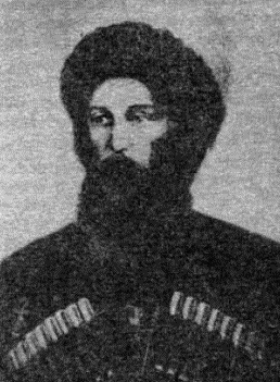 Sheikh_Mansur